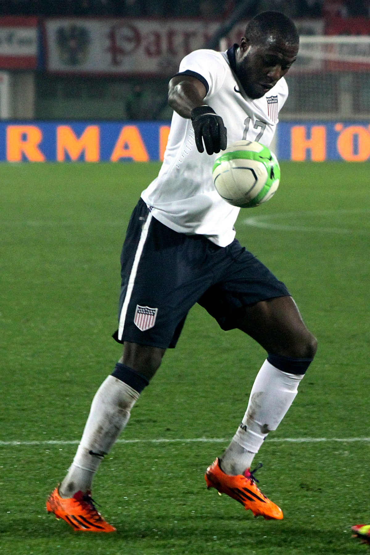 Friendly-match Austria vs. USA (1:0) in the Ernst-Happel-Stadion in Vienna at 2013-03-22. – The photo shows Jozy Altidore (USA).